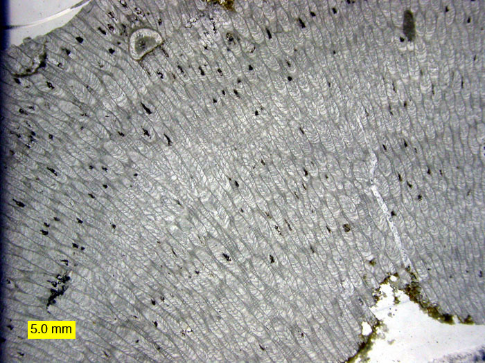 Brown bodies in an Ordovician bryozoan.